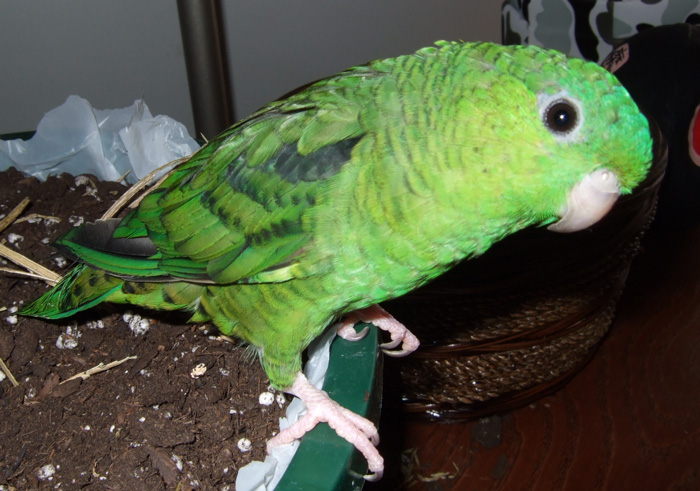 Barred Parakeet (Bolborhynchus lineola), also known as Lineolated Parakeet or Catherine Parakeet.